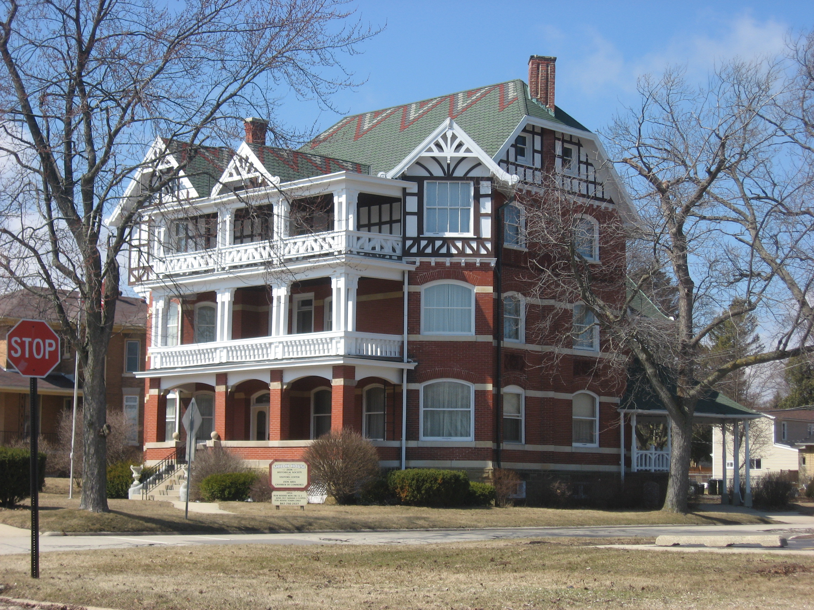 Front and eastern side of the Shiloh House, located at 1300 Shiloh Boulevard in Zion, Illinois, United States. Built in 1902, it is listed on the National Register of Historic Places.